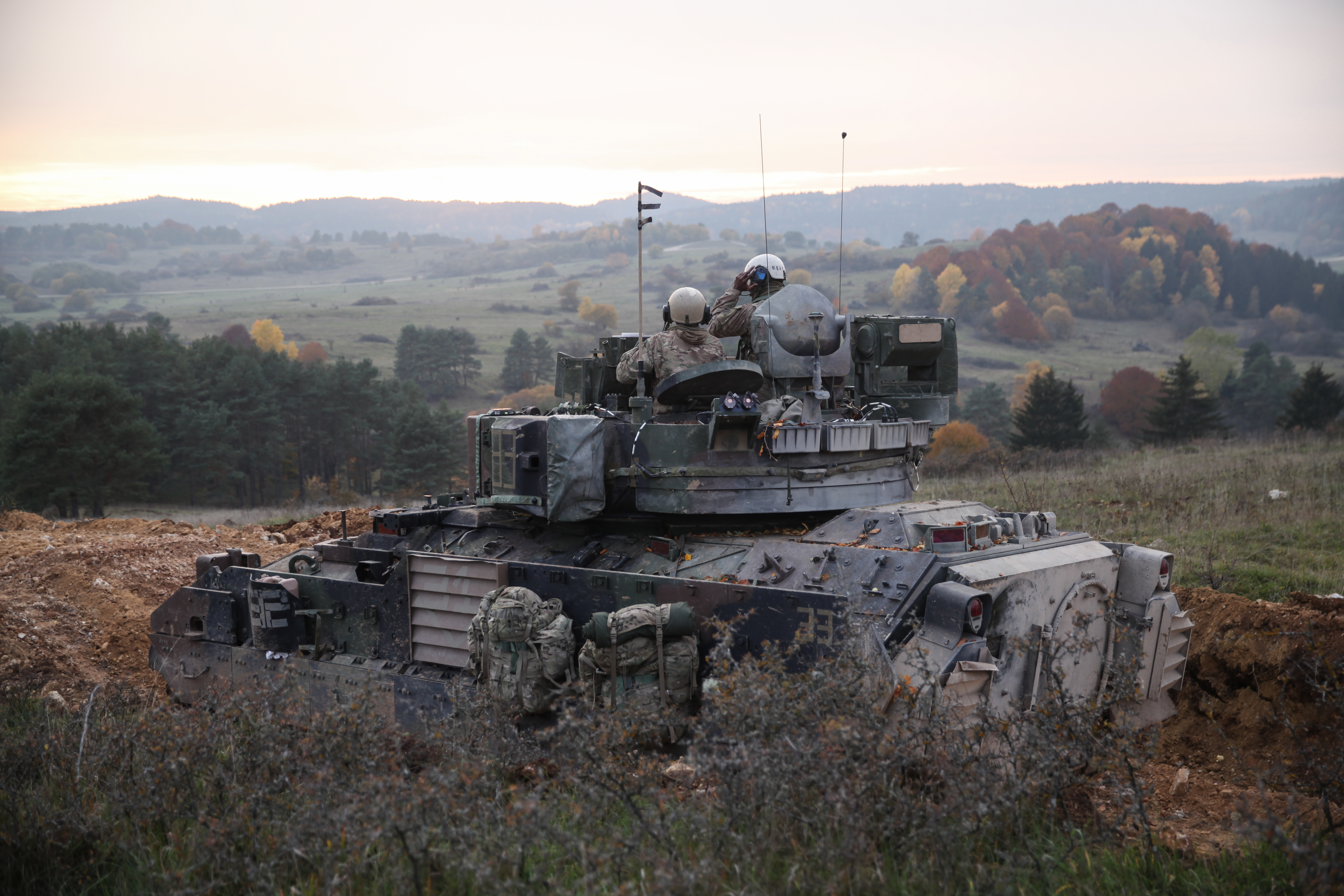 U.S. Soldiers of Alpha Company, 1st Battalion, 64th Armor Regiment provide security while operating a M2A3 Bradley IFV while conducting defensive operations during exercise Combined Resolve V at the U.S. Army’s Joint Multinational Readiness Center in Hohenfels, Germany, Oct. 28, 2015. Exercise Combined Resolve V is designed to exercise the U.S. Army’s regionally allocated force to the U.S. European Command area of responsibility with multinational training at all echelons. Approximately 4,600 participants from 13 NATO and European partner nations will participate. The exercise involves around 2,000 U.S. troops and 2,600 NATO and Partner for peace nations. Combined Resolve is a preplanned exercise that does not fall under Operation Atlantic resolve. This exercise will train participants to function together in a joint, multinational and integrated environment and train U.S. rotational forces to be more flexible, agile, and to better operate alongside our NATO Allies. (U.S. Army photo by Spc. Shardesia Washington/Released) Unit: VIPER COMBAT CAMERA USAREUR